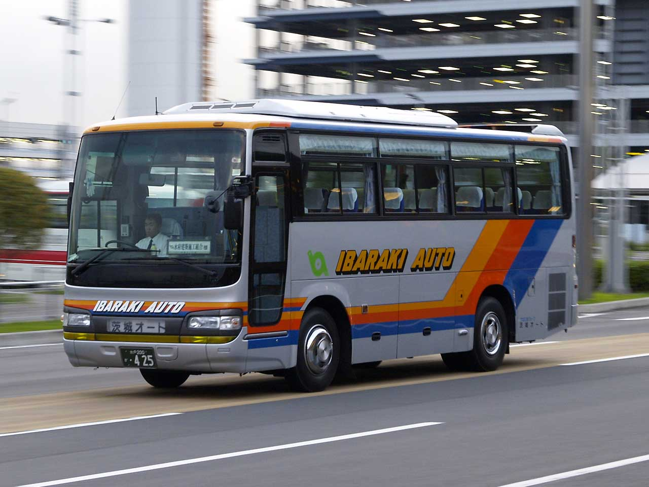 Fleet of Ibaraki Auto, sightseeing bus for smaller number. Model: Hino Selega R FC KL-RU1JHEA License Plate: IBM200 KA-425 Place: Tokyo International Airport: Ota ward, Tokyo Japan 茨城オートの9m貸切車の一例。カラーリングは基本的に茨城交通に準ずる。 型式：日野セレガR FC KL-RU1JHEA 登録番号：水戸200か・425 撮影地：東京都大田区羽田空港・東京国際空港第2ターミナル